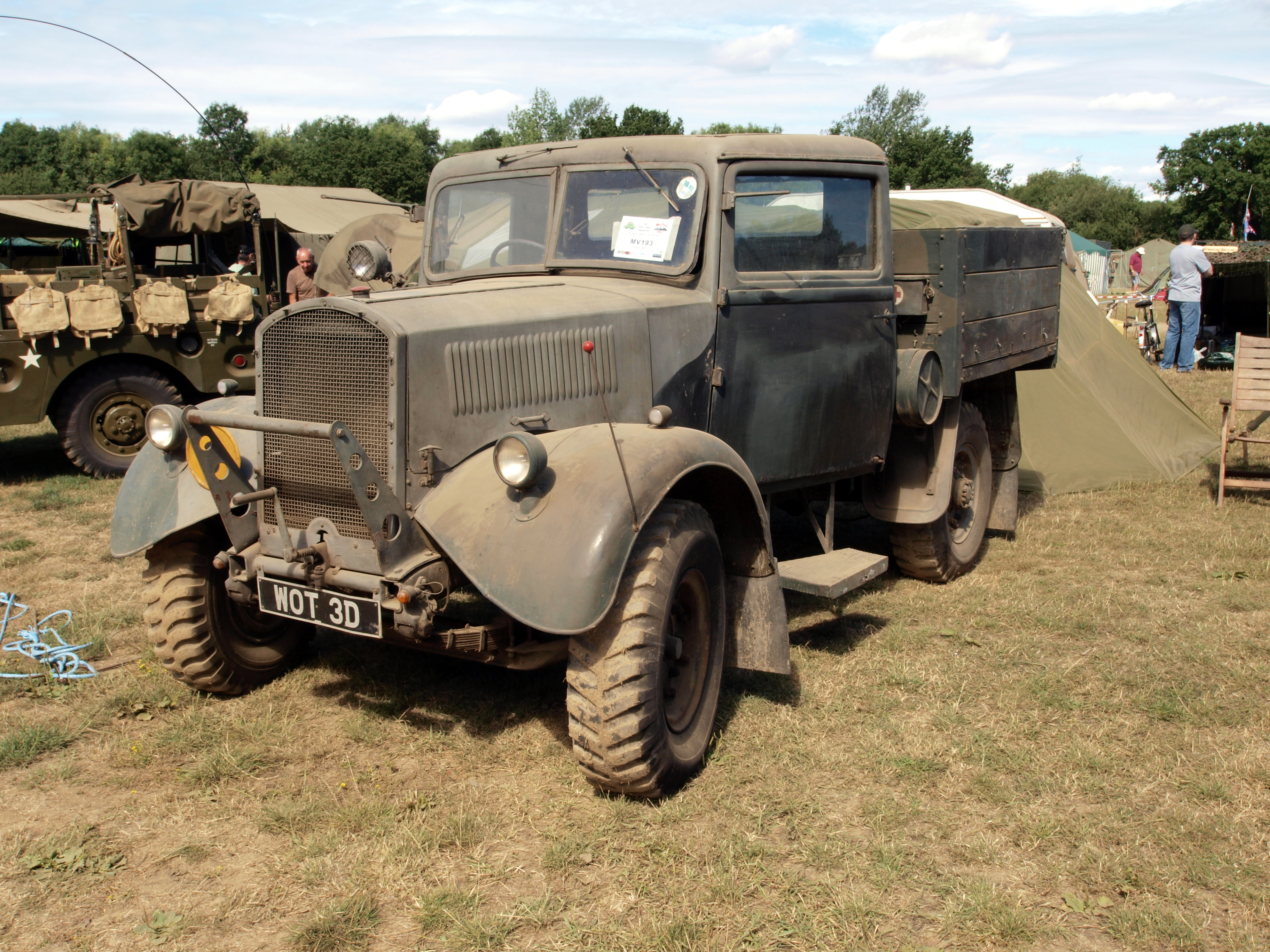 Fordson WOT3D